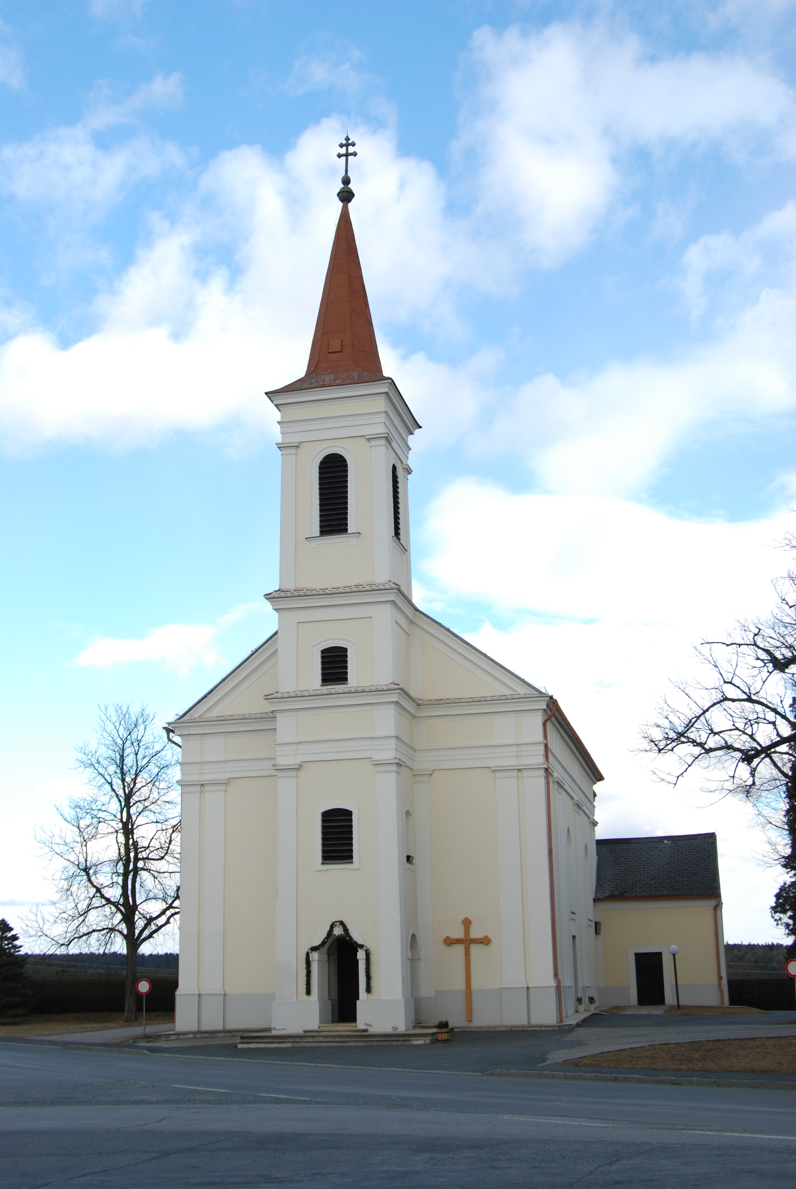 Parish church Neuberg im Burgenland